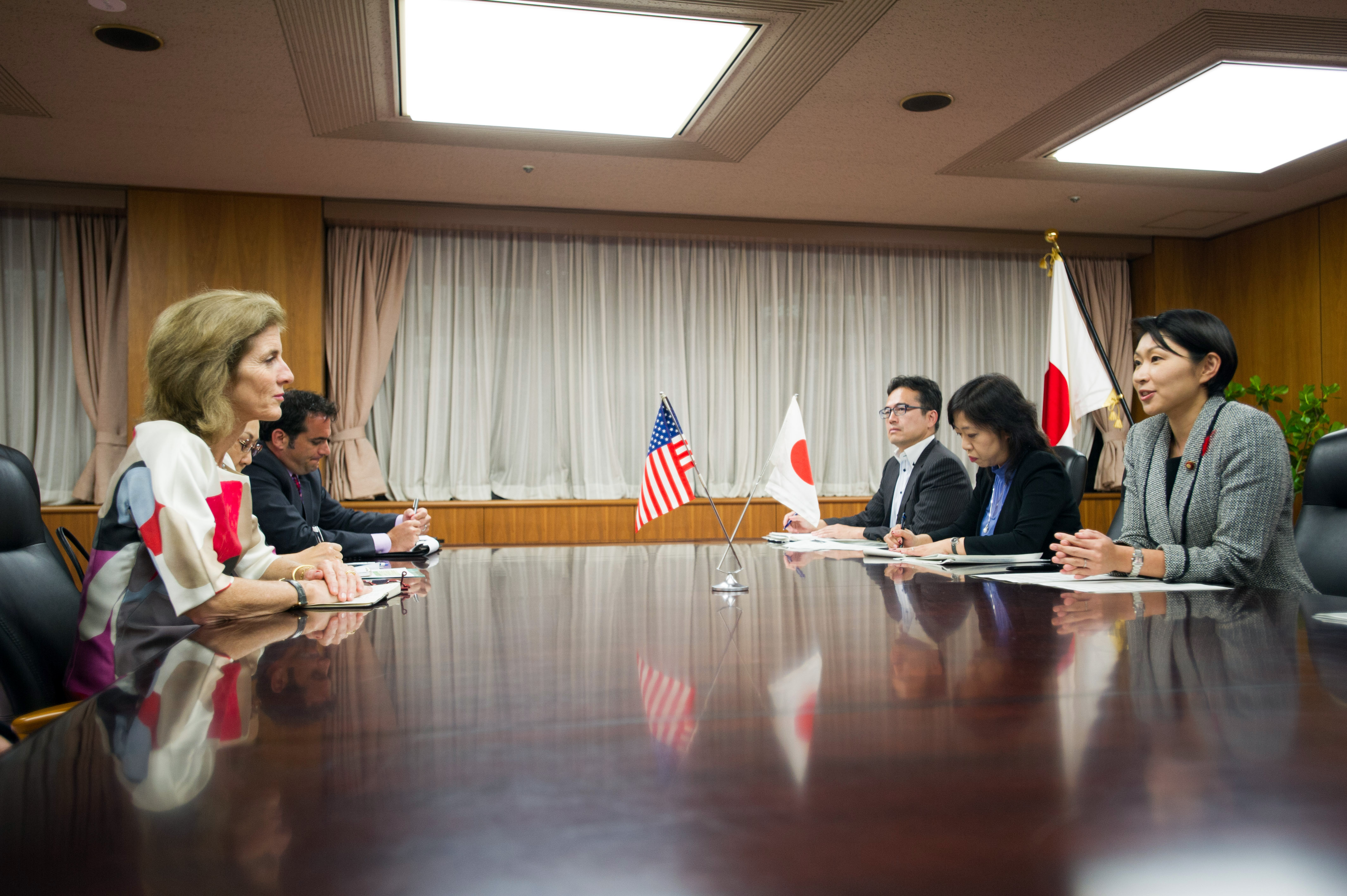 TOKYO, Japan (October 14, 2014) U.S. Ambassador to Japan Caroline Kennedy sits down for a meeting with Japan’s new Minister of Economy, Trade and Industry Yuko Obuchi. Binary option demo accounts State Department photo by William Ng